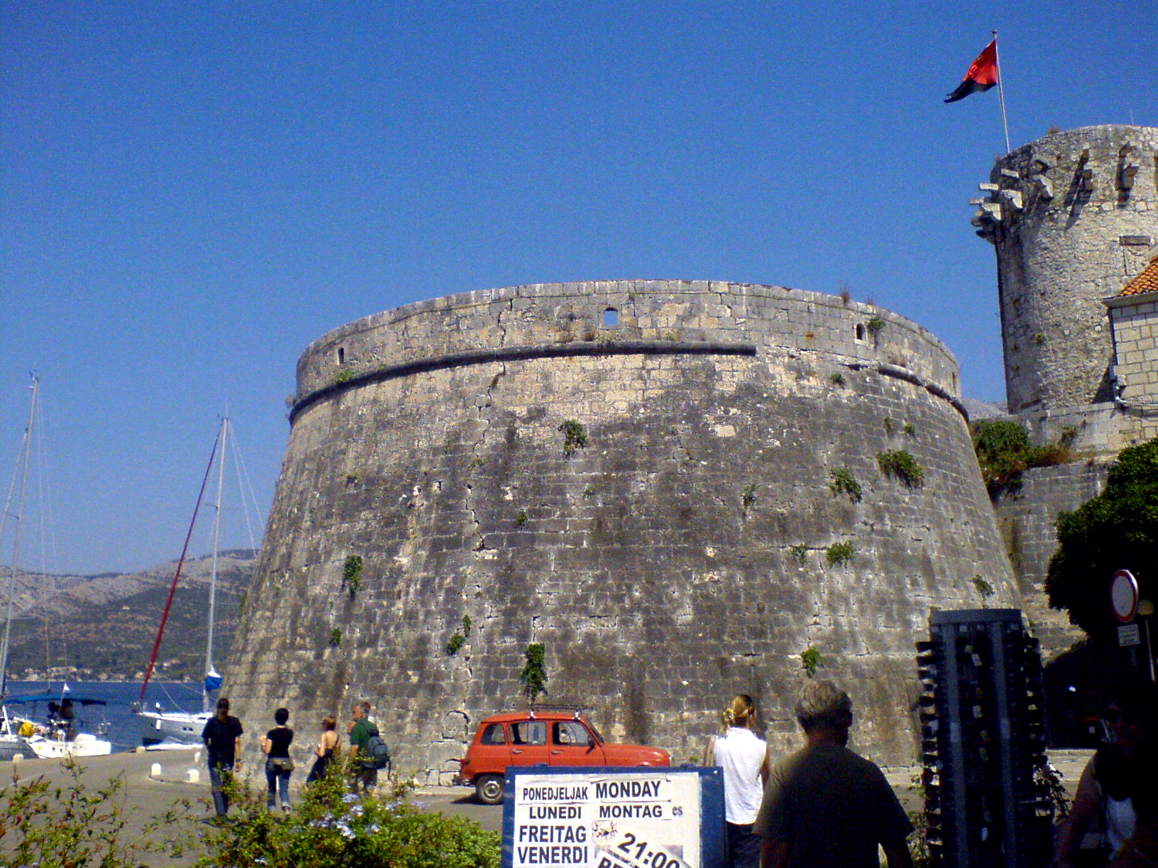 Inside the city of Korčula